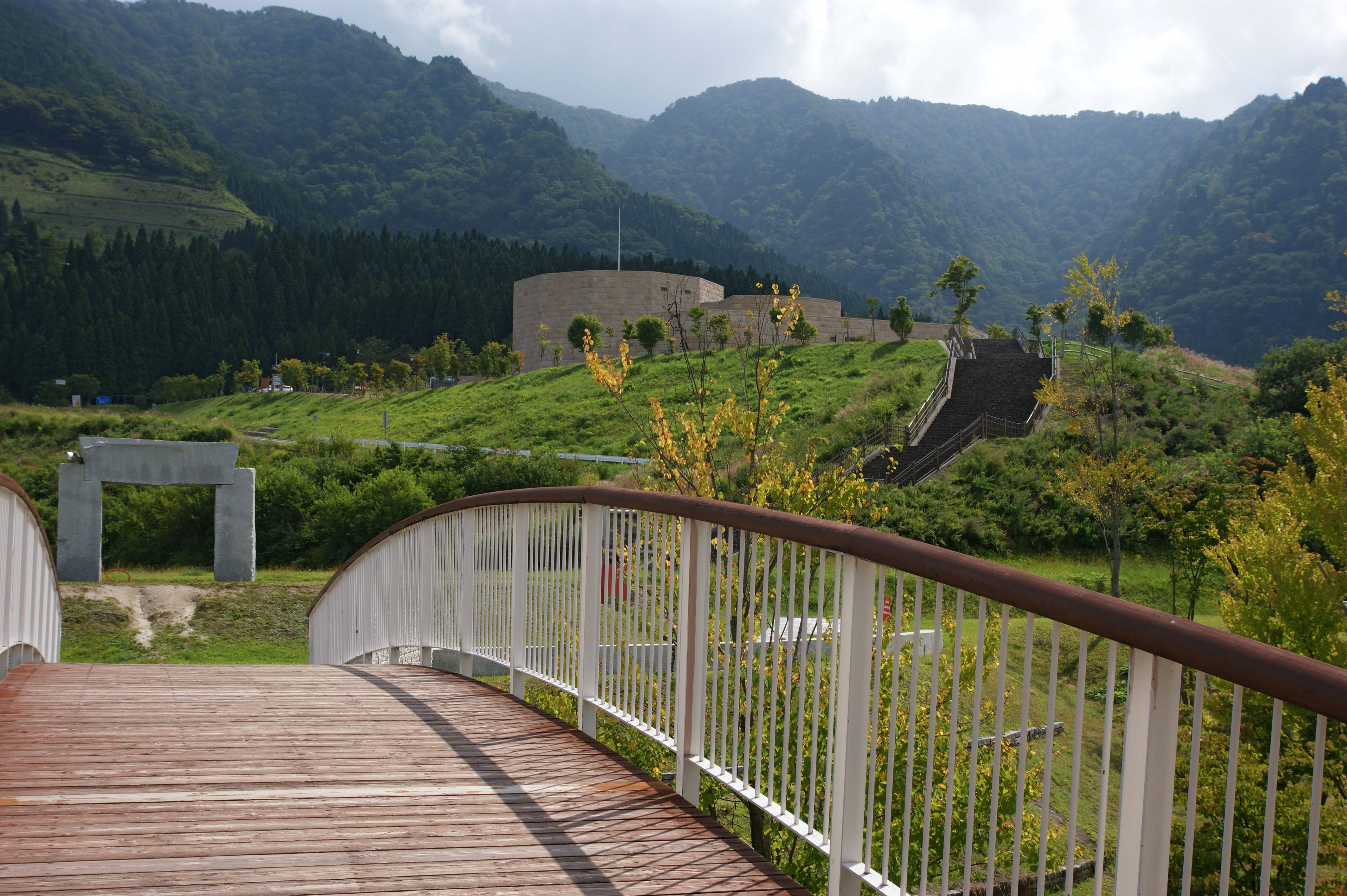 Hyonosen Nature Museum, Hibikinomori in Wakasa, Tottori prefecture, Japan